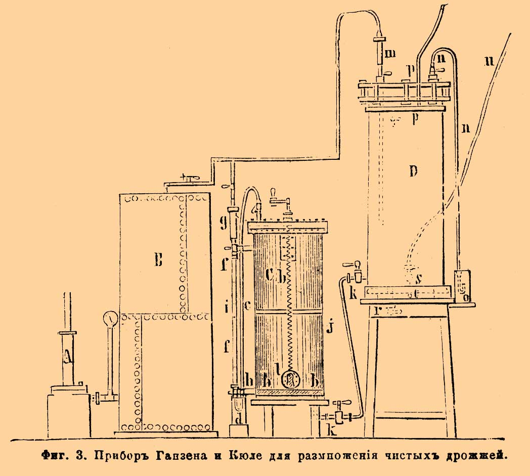 Illustration from Brockhaus and Efron Encyclopedic Dictionary (1890—1907)